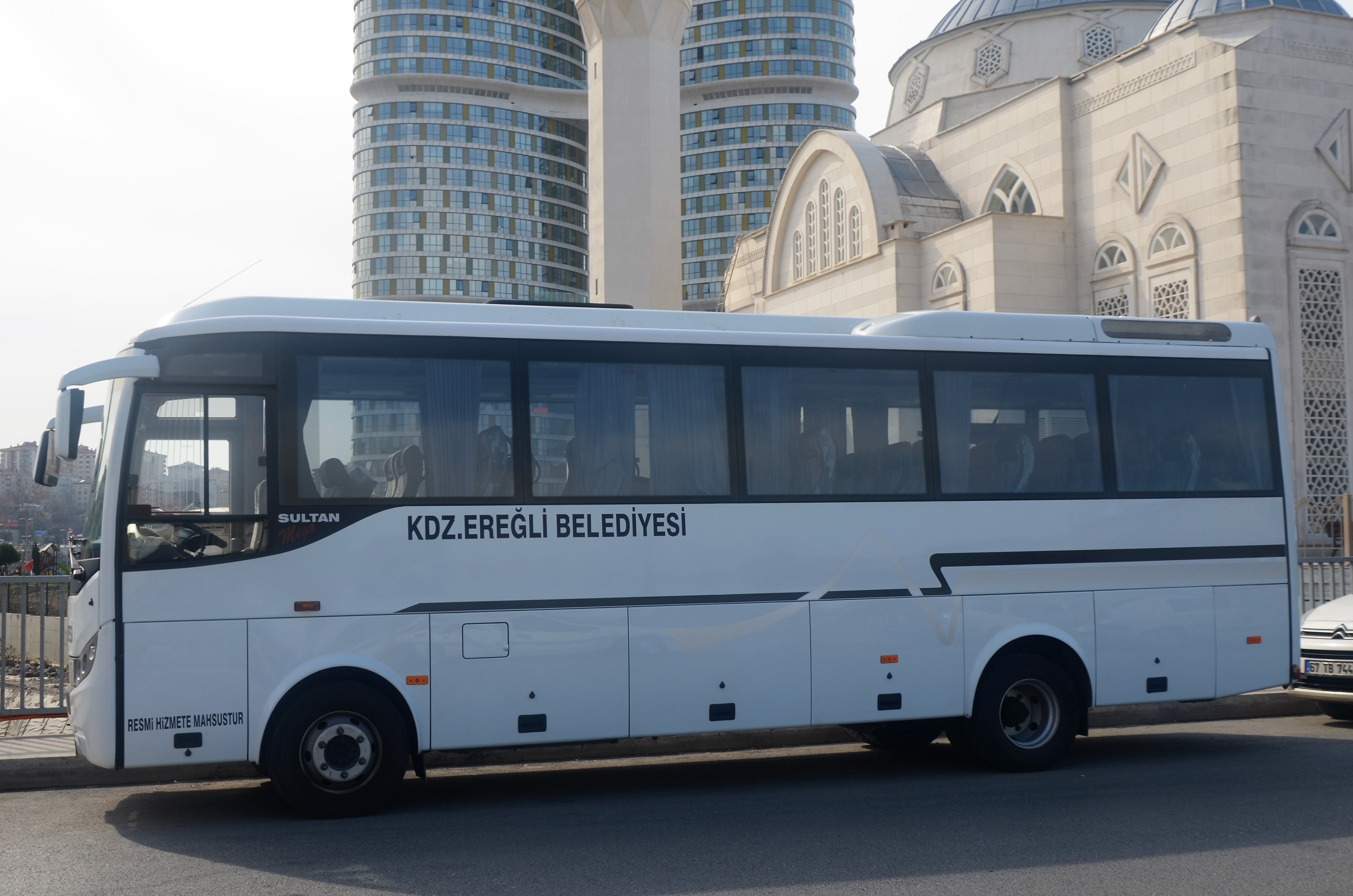 Team bus of Kdz. Ereğli Belediye Spor in Istanbul, Turkey.